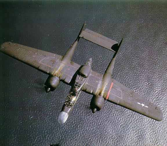 P-61 from above.